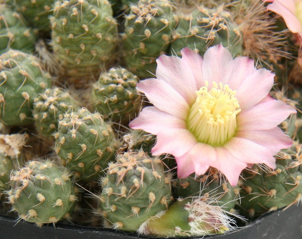 Maihueniopsis subterranea in Blüte